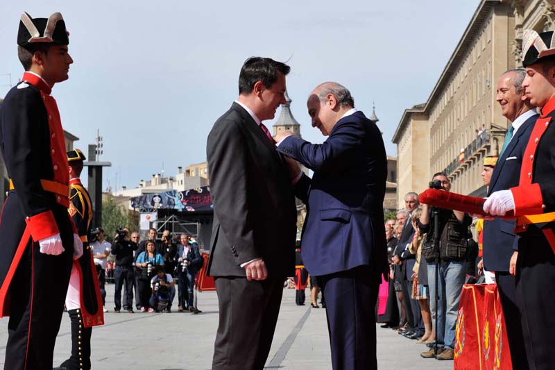 Ministro del Interior Condecora a Ferrer-Dalmau